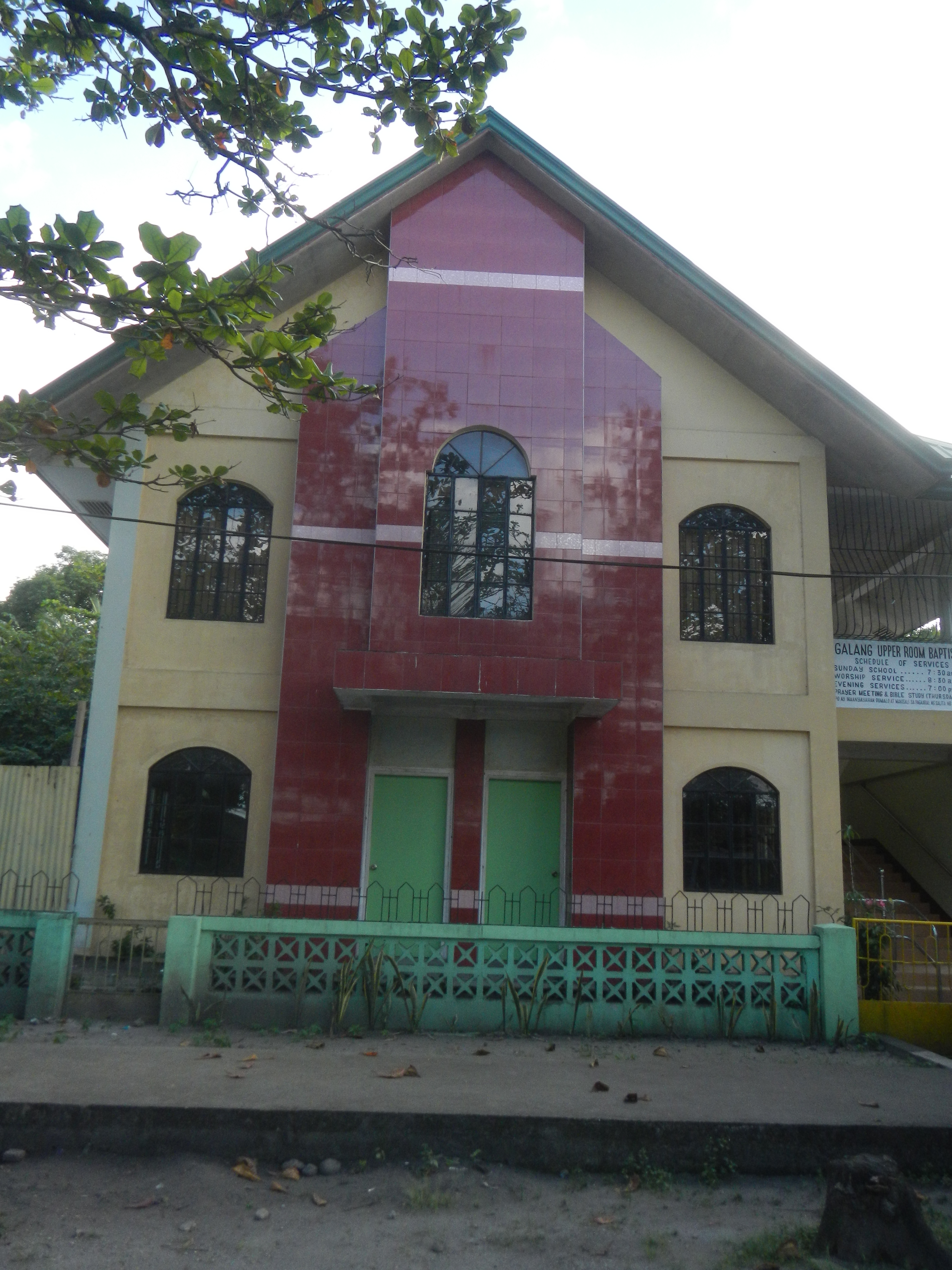 Proposed replacement of Quitangil bridge and Detour bridge (San Miguel and San Nicolas 1, Magalang, Pampanga) Pabalan Delicacies (San Nicolas 1, Magalang, Pampanga) Triple V gas stations (San Nicolas 1, Magalang, Pampanga) Magalang Upper Room Baptist Church, Pampanga; Town proper of (San Nicolas 1 Poblacion) Magalang Heritage District, Pampanga; Barangays San Pedro 1 and San Nicolas 1st (Poblacion), 15°13'9"N 120°39'26"E Magalang, Pampanga (Note: Judge Florentino Floro, the owner, to repeat, Donor Florentino Floro of all these photos hereby donate gratuitously, freely and unconditionally all these photos to and for Wikimedia Commons, exclusively, for public use of the public domain, and again without any condition whatsoever).